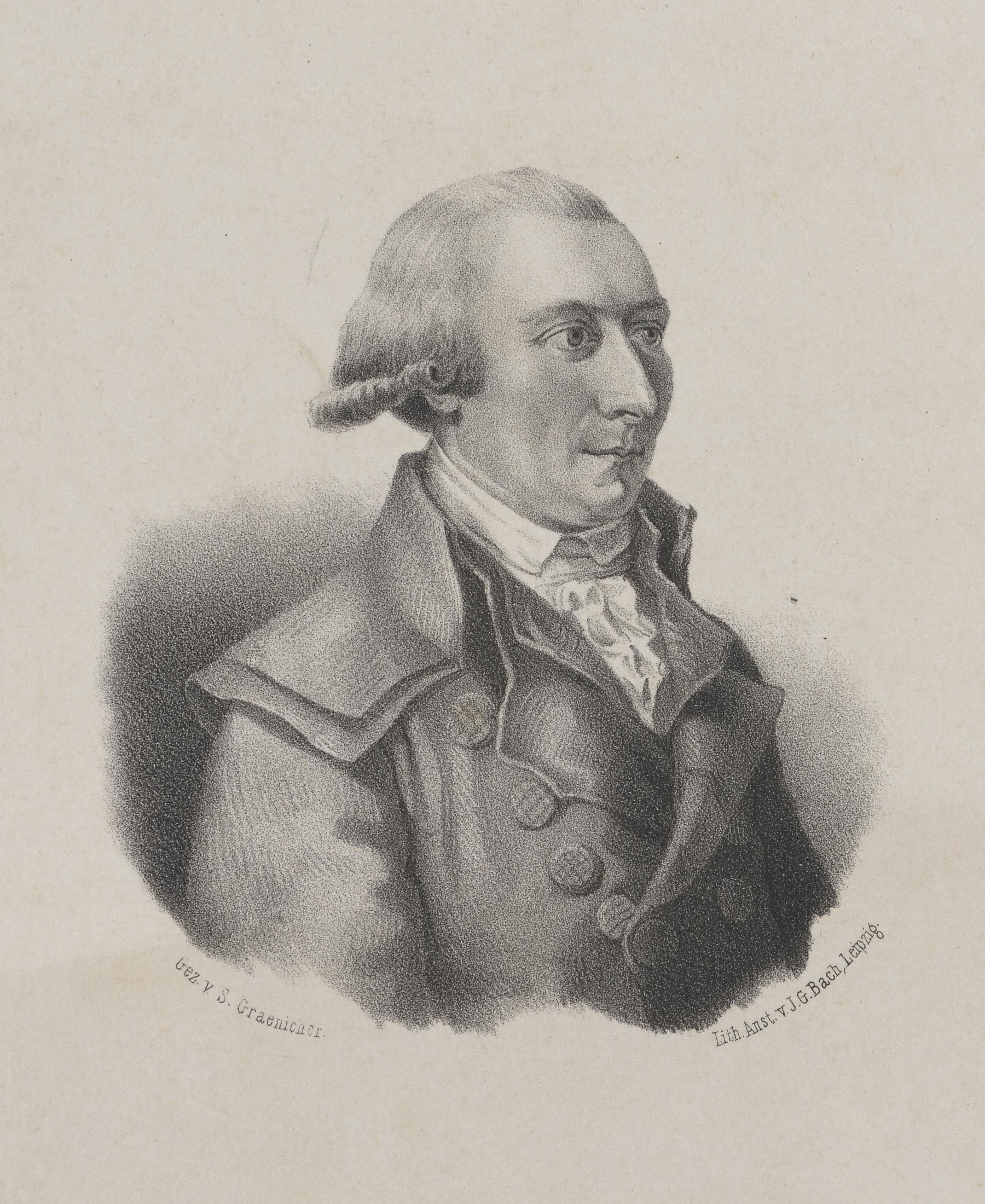 Depicted person: Georg Joachim Göschen